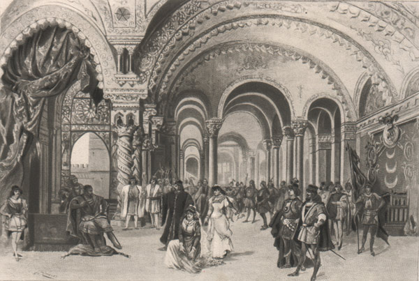 Otello-Act-3-1887-photo Carlo Ferrario